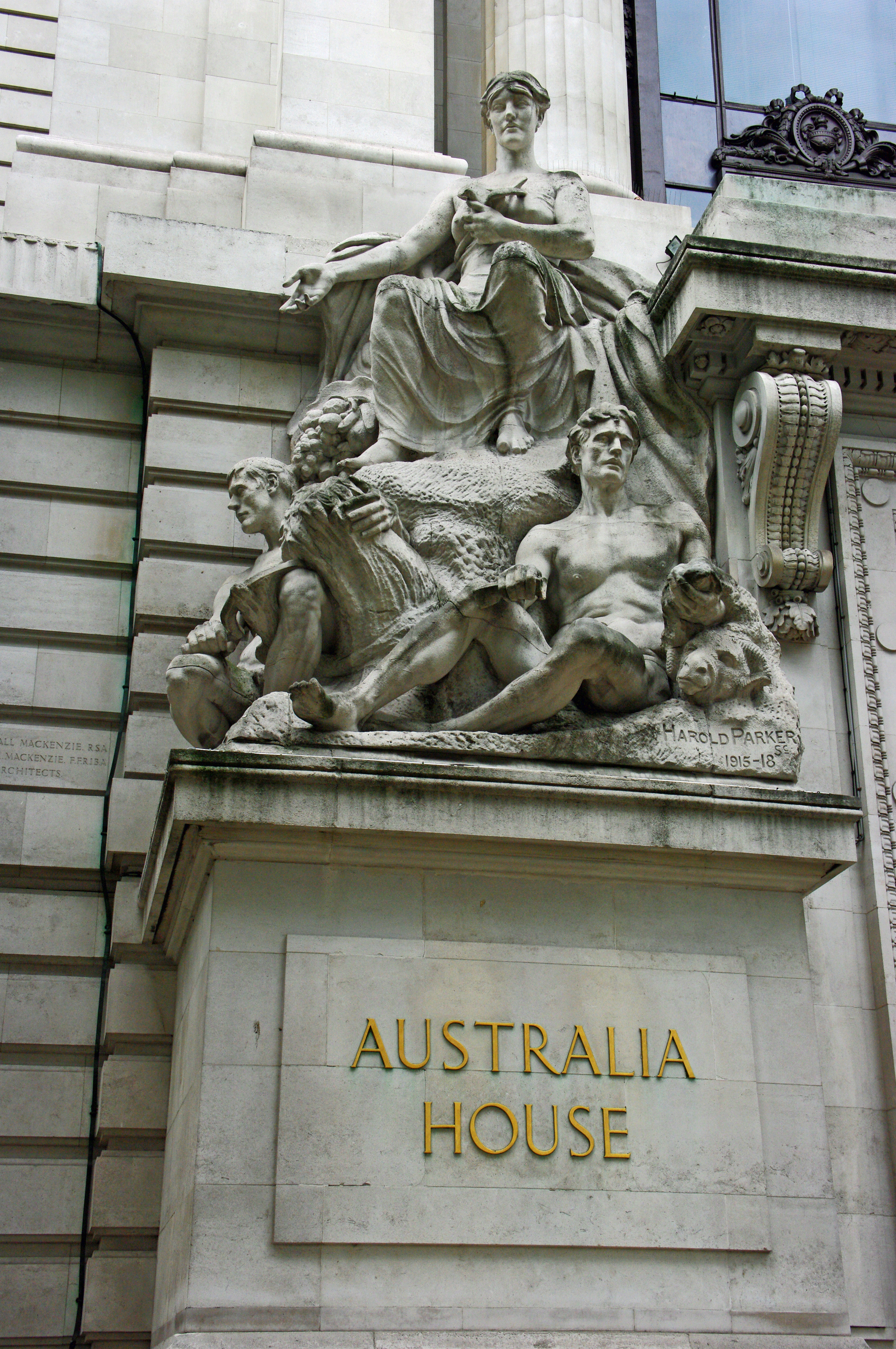 Detail of Australia House, London, UK